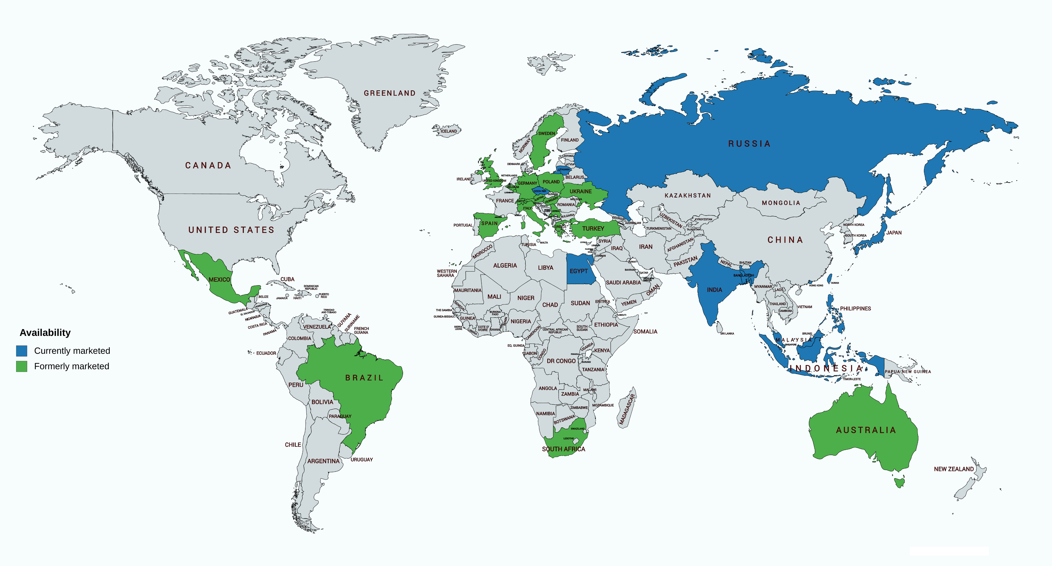 Current and former availability of allylestrenol as of December 2017.